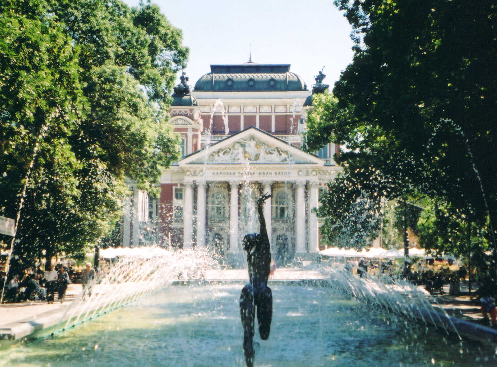 Ivan Vazov National Theatre (Народен театър „Иван Вазов), Sofia Bulgaria. Taken with an APS film camera.